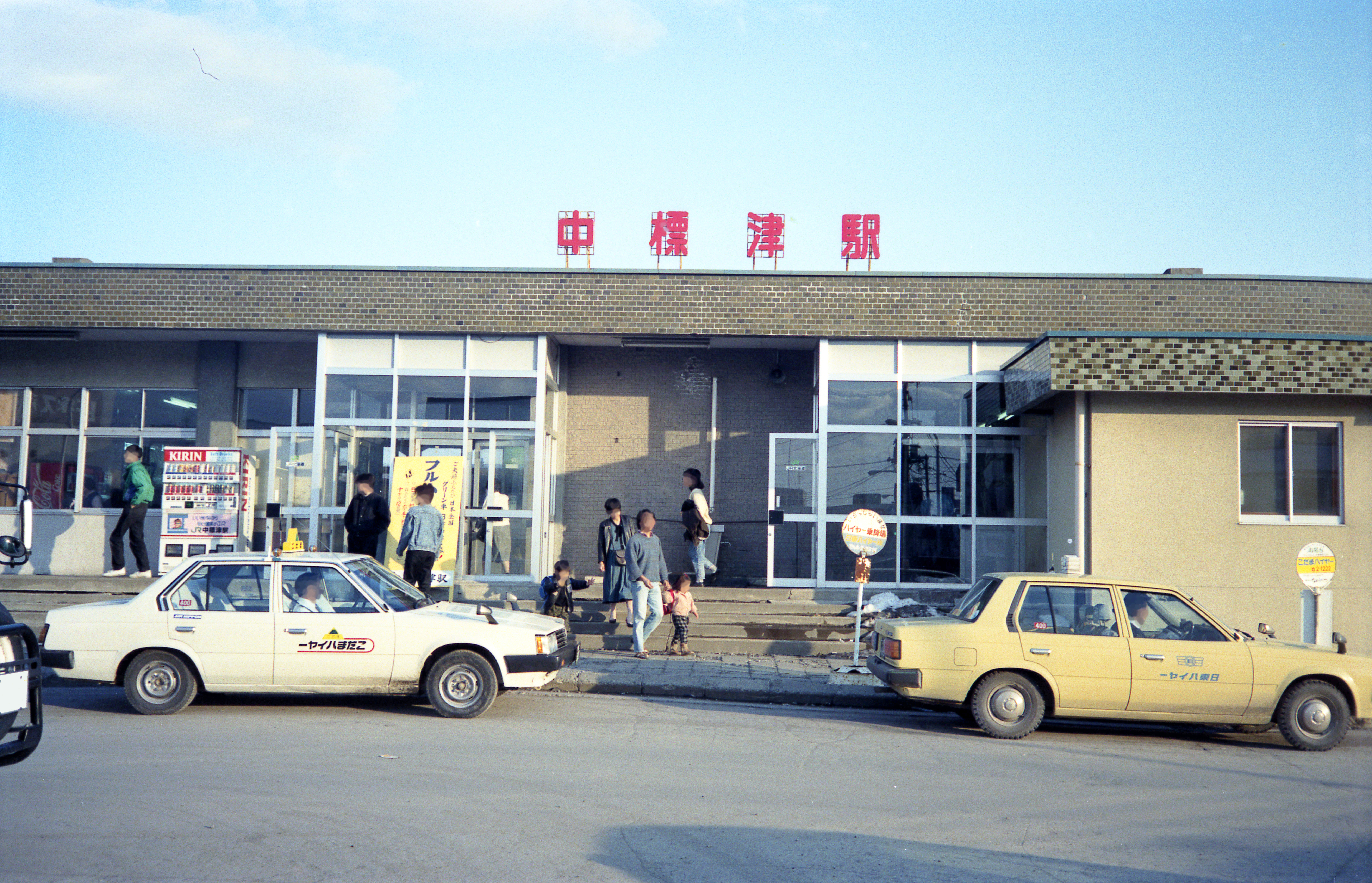 The building of Nakashibetsu Station,Hokkaido Railway Company Shibetsu Line(before abolished)